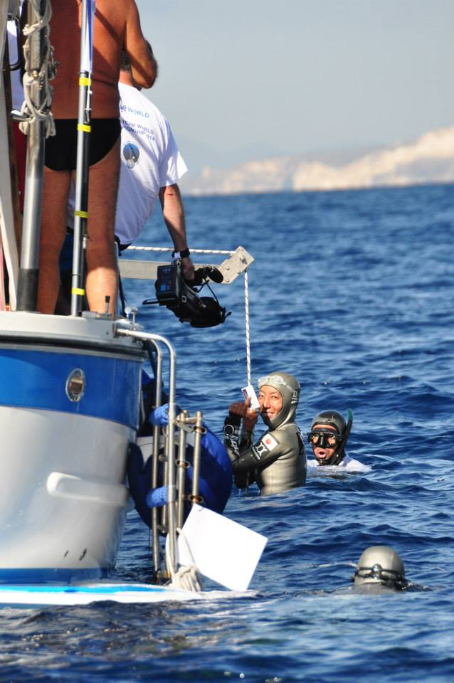 September 25, 2014 AIDA Freediving World Championships (Italy) CWT81m success!